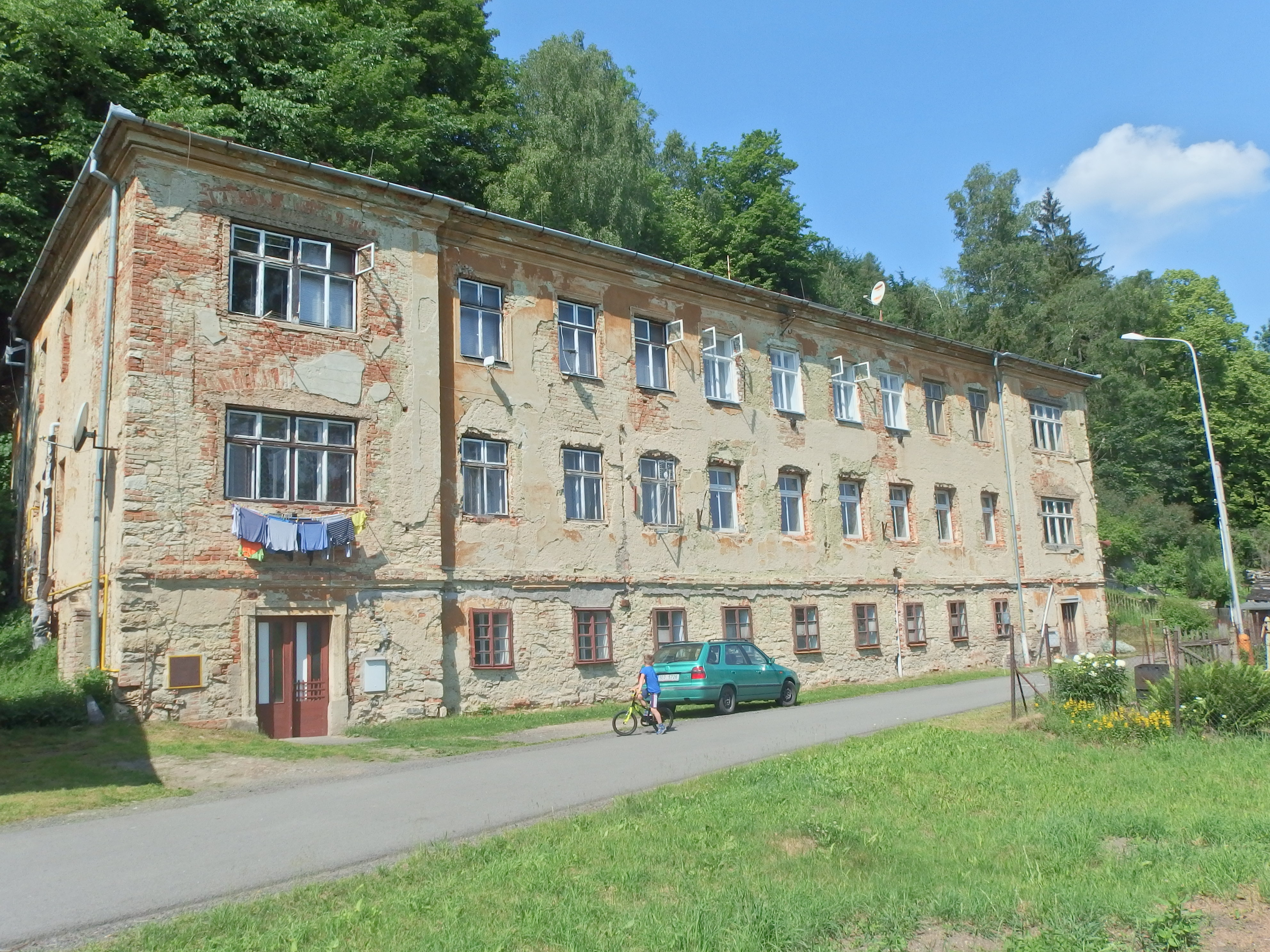 Brněnec, Svitavy District, Czech Republic, part Podlesí.